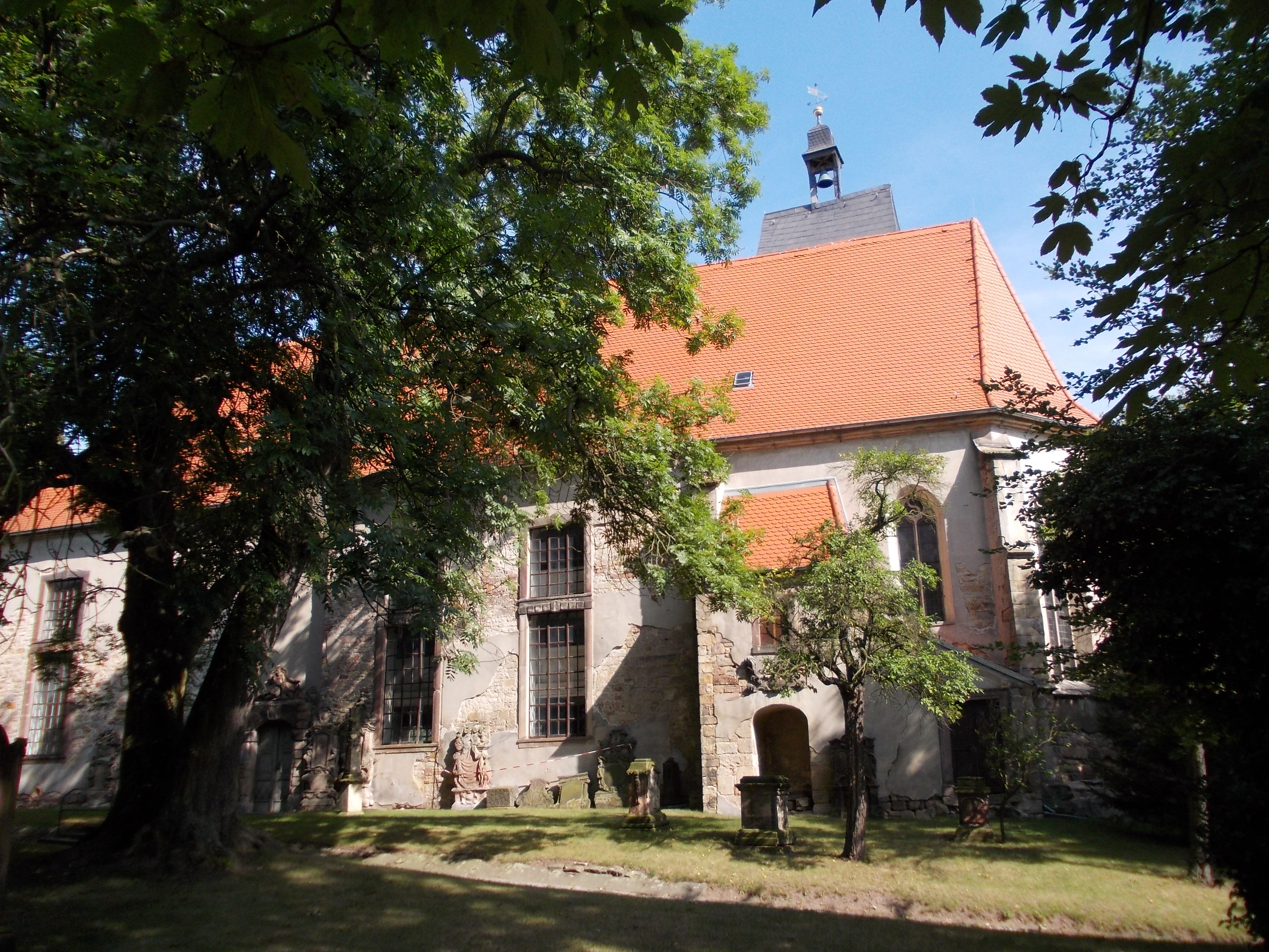 St. Pancratius Church in Lodersleben (Querfurt, district of Saalekreis, Saxony-Anhalt)